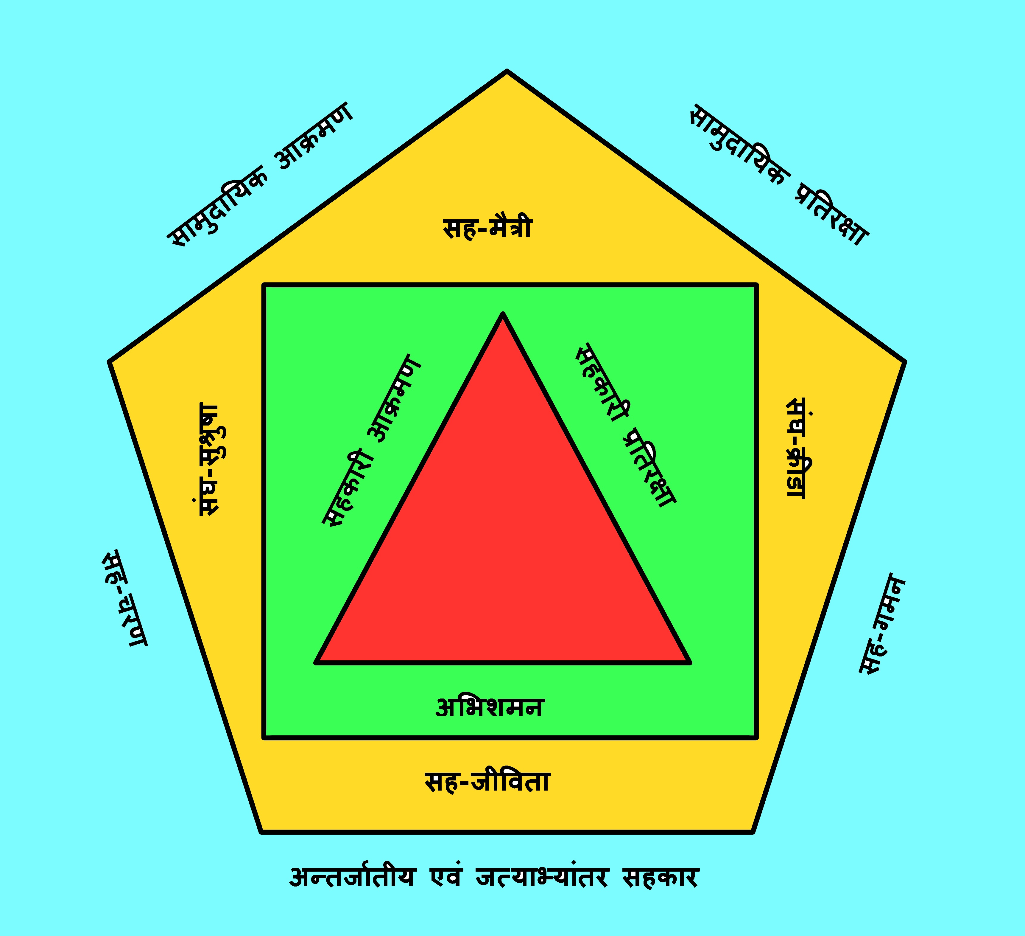 12 categories of cooperative behaviors in rhesus monkeys